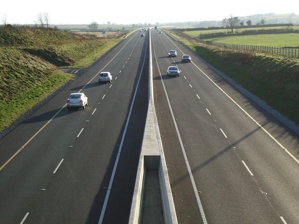 M8 looking south